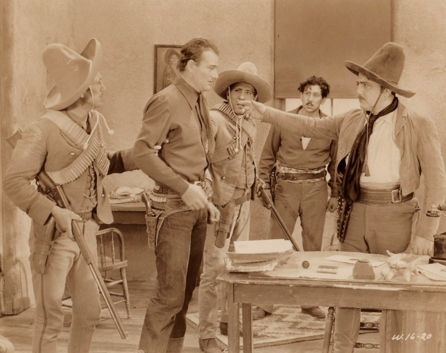 John Wayne (second from left) and Gino Corrado (right) in Paradise Canyon (1935) - publicity still (cropped : see source).